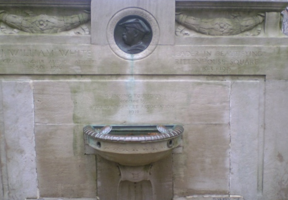 J. William White, 1922, bas-relief bust by Robert Tait McKenzie, Rittenhouse Square, Philadelphia, PA Surgeon, Teacher, Author, Athlete, (1850-1916) Leader in beautifying Rittenhouse Square